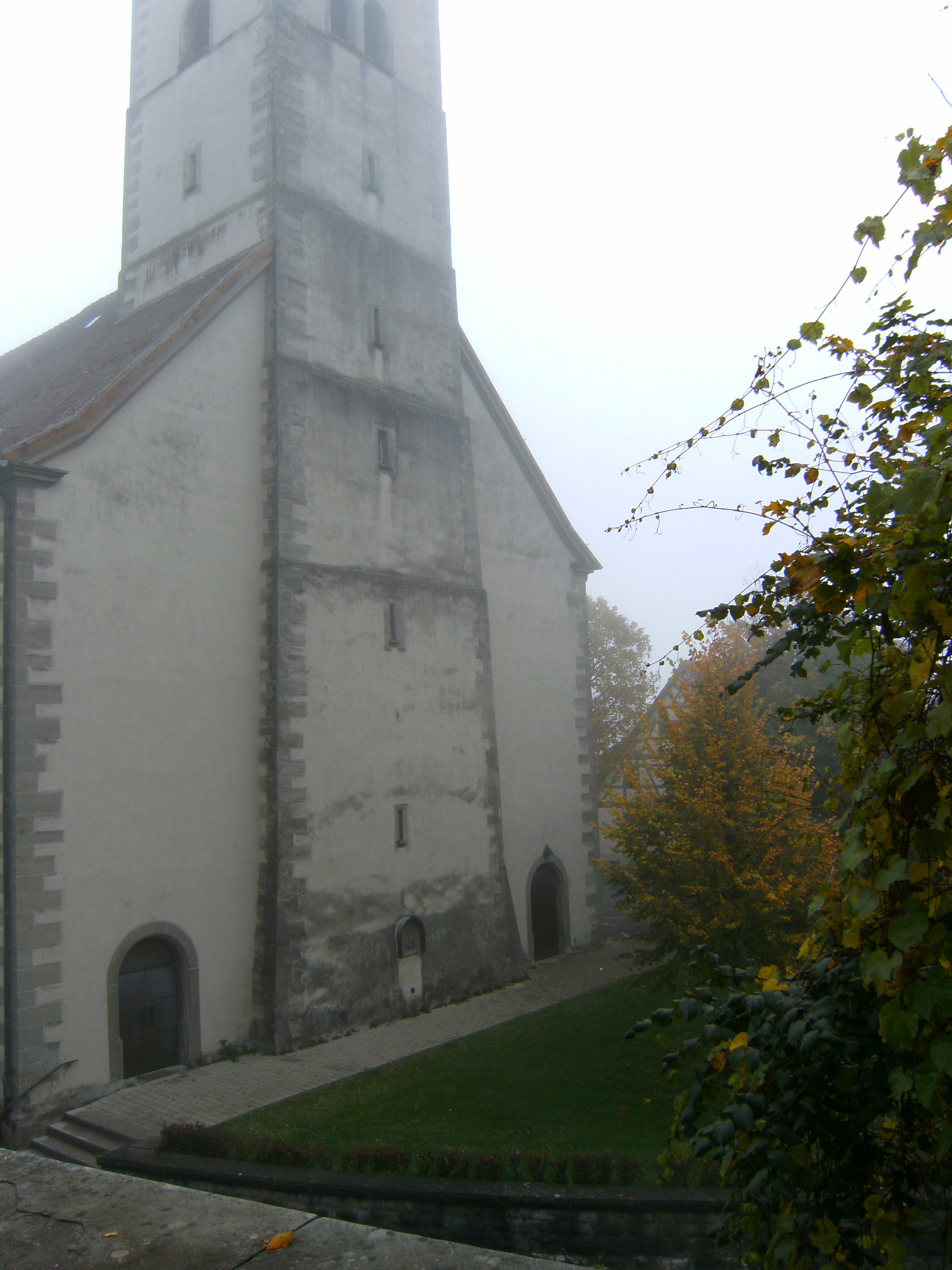 The tower of the catholic church in Meersburg, Germany was part of the medieval fortification: structure.